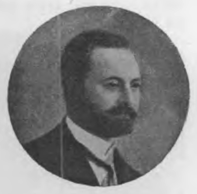 Stanisław Głąbiński, MP